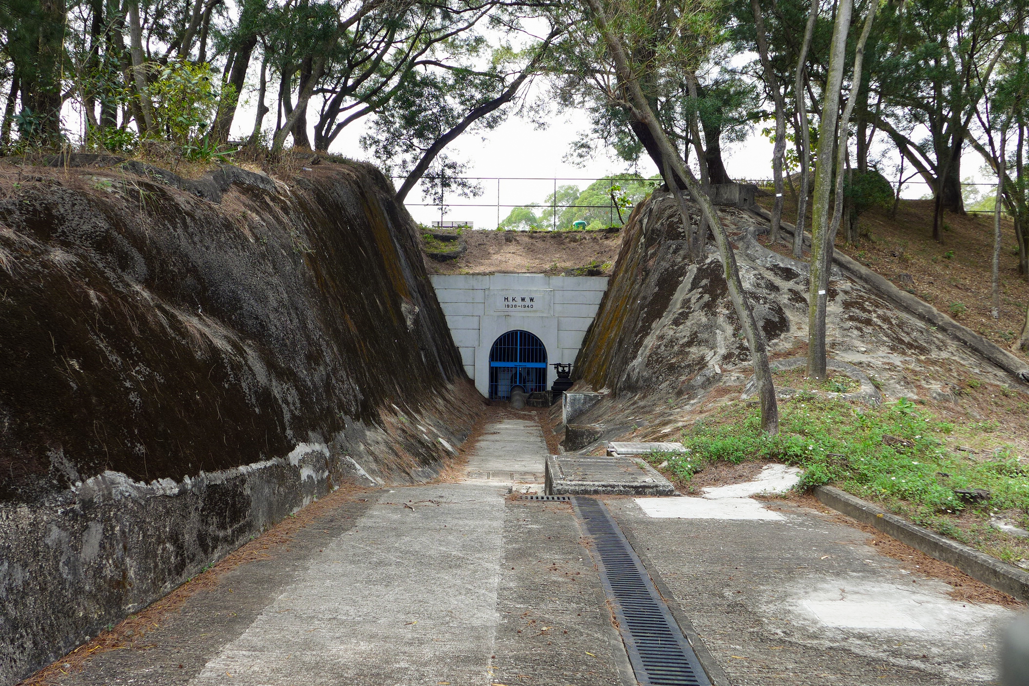 Lok Fu Service Reservoir